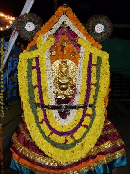 Nalpathenneeswaram thidambu sivan